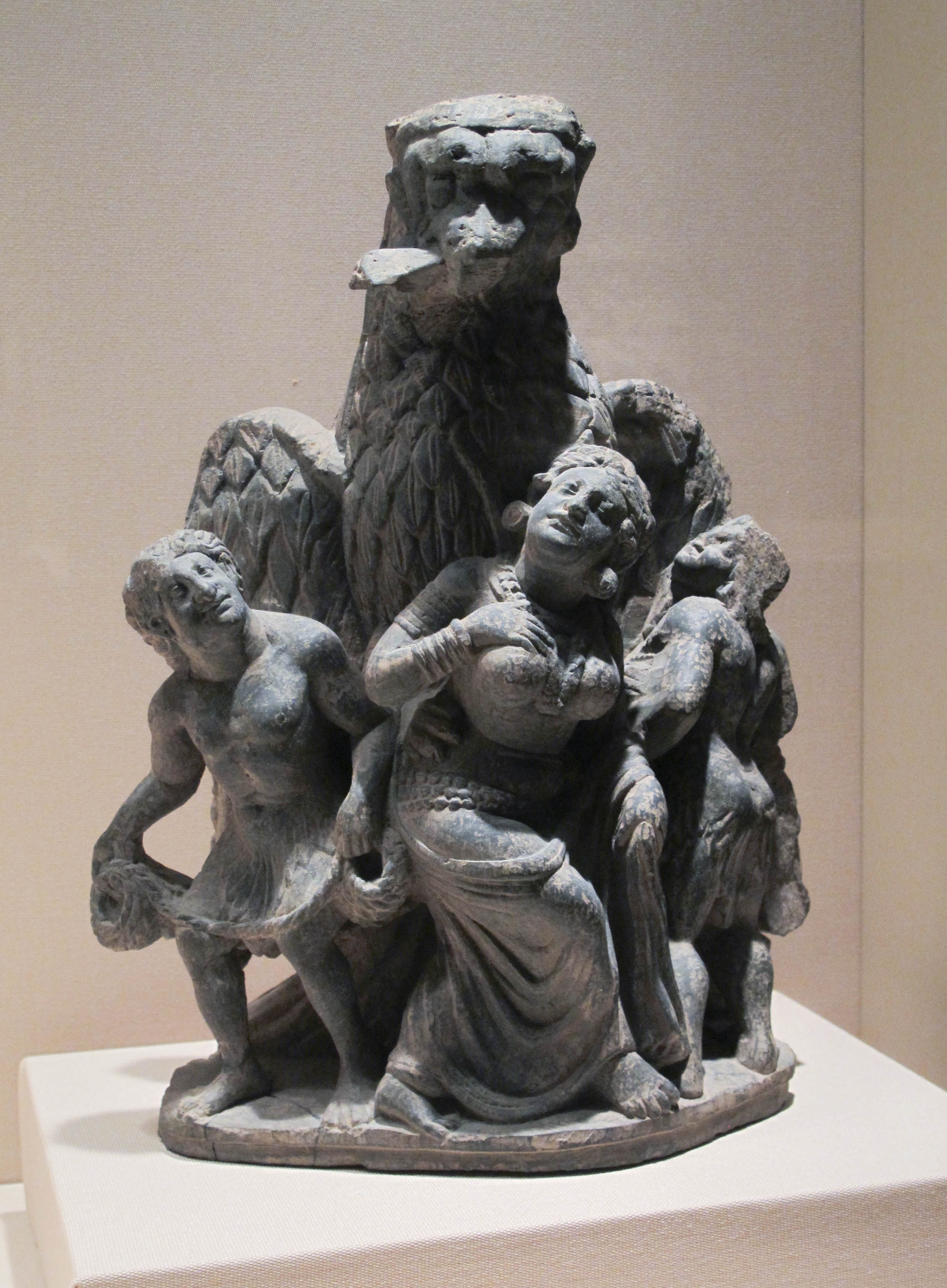 Garuda vanquishing the Naga clan. Pakistan (ancient region of Gandhara), ca. 2nd–3rd century. Schist, H. 13 1/8 in. (33.3 cm); W. 9 7/8 in. (25.1 cm). Metropolitan Museum of Art. There are many jatakas (Buddhist tales) about the former lives of the Buddha. In this one, he was born as the king of Benares and ruled with his beloved queen, Kakati. The royal solar bird Garuda came to the court disguised as a man and gambled with the king. He then became enamored of the queen and abducted her. But when Garuda heard of the king's great sadness and of his true love for Kakati, he restored her to him.